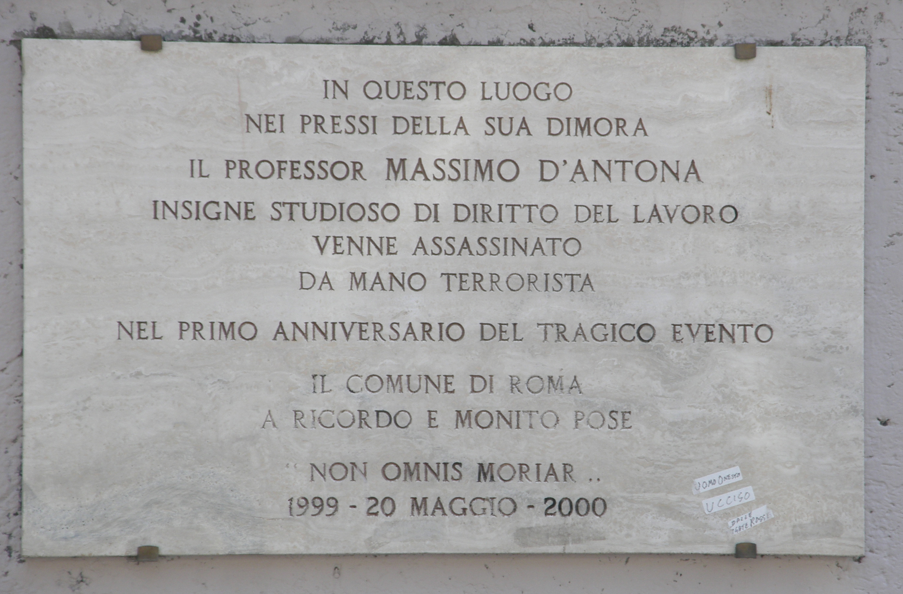 Rome, Italy - Plaque devoted to Massimo D'Antona, in Via Salaria, on Villa Albani boundary wall